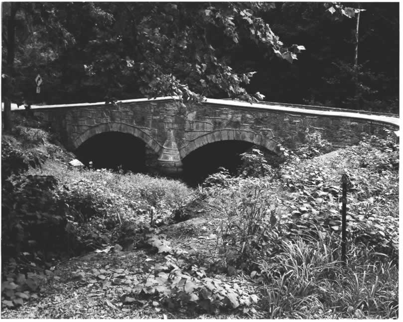 Side of McClay's Twin Bridge (East), which carries Legislative Route 28010 over a tributary of Conodoguinet Creek near Middle Spring in Lurgan and Southampton Townships, Franklin County, Pennsylvania, United States. Built in 1827, the bridge is listed on the National Register of Historic Places.